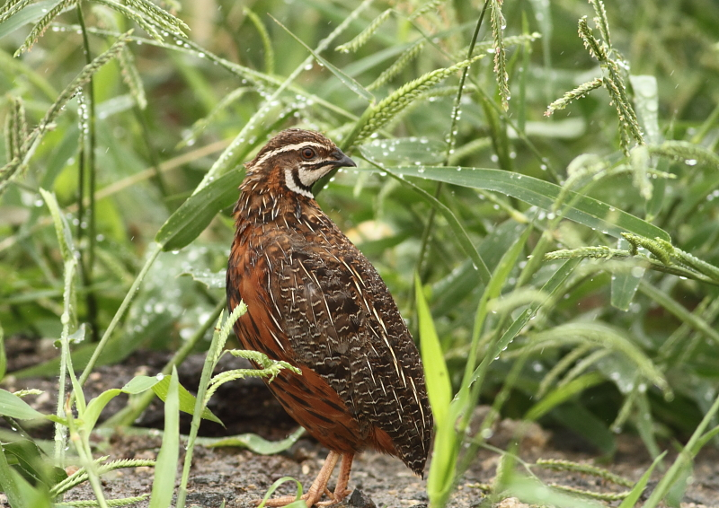 Coturnix delegorguei (Phasianidae) (Harlequin Quail) - (male adult), Kruger National Park, South Africa